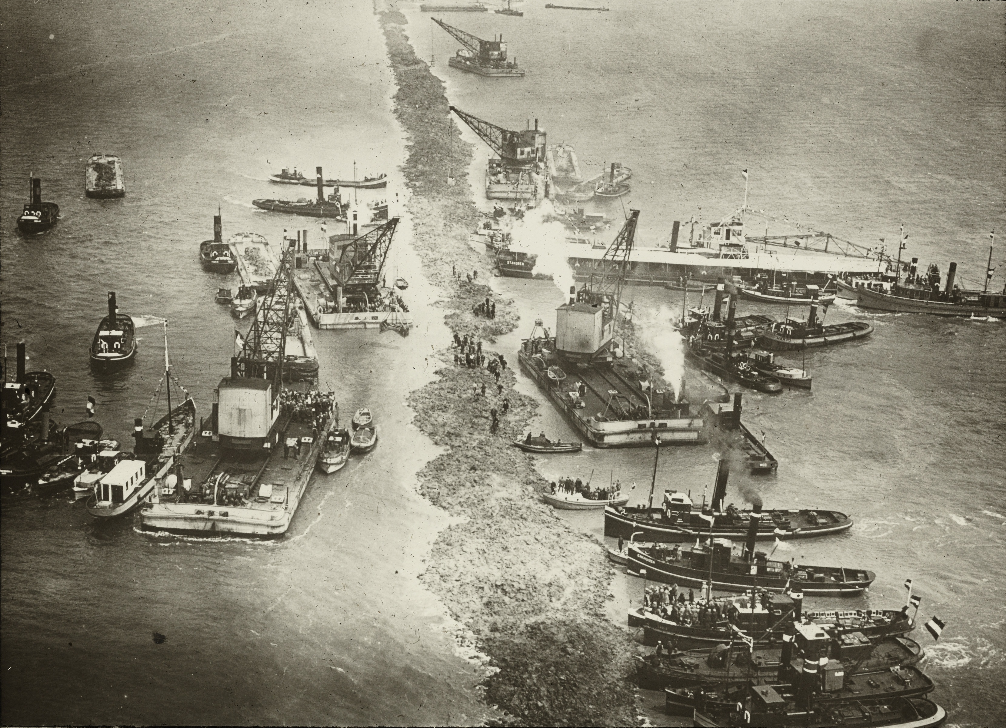 Aerial photograph of the construction of the Afsluitdijk in The Netherlands.